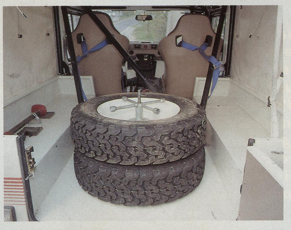 UMM Alter trofeu 1990